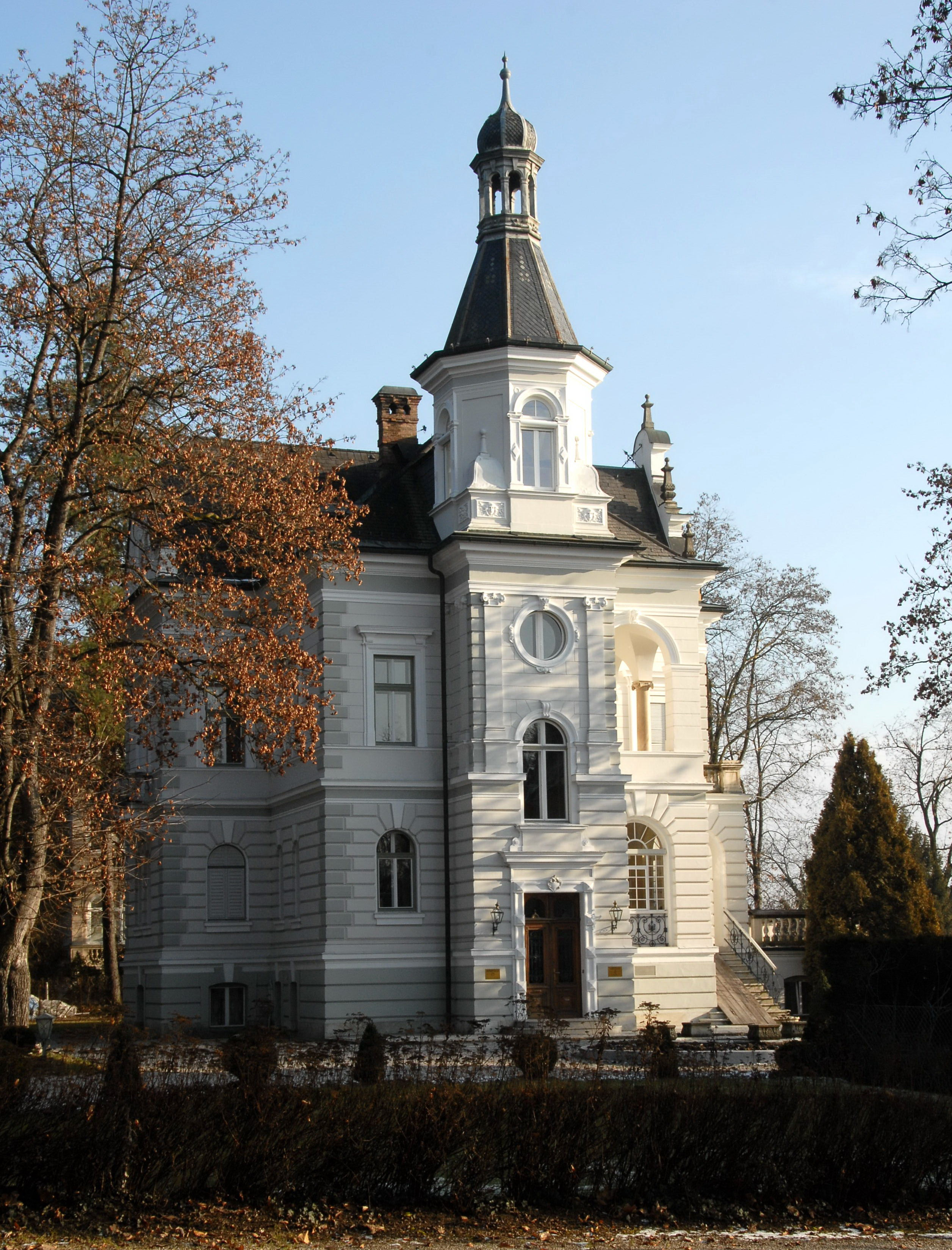 Western view at Villa Woerth, Josef Viktor Fuchs 1891, Johannaweg #5, municipality Poertschach on the Lake Woerth, district Klagenfurt Land, Carinthia, Austria, EU